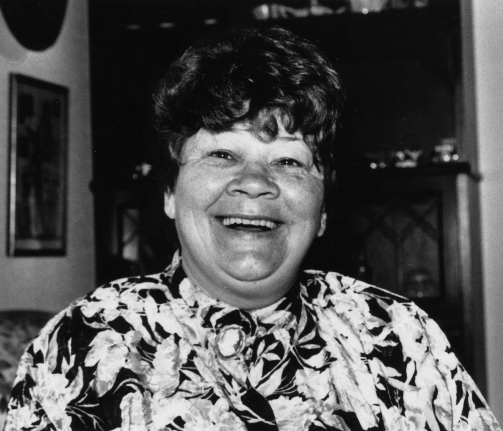 New Zealand children's author, Joy Cowley.